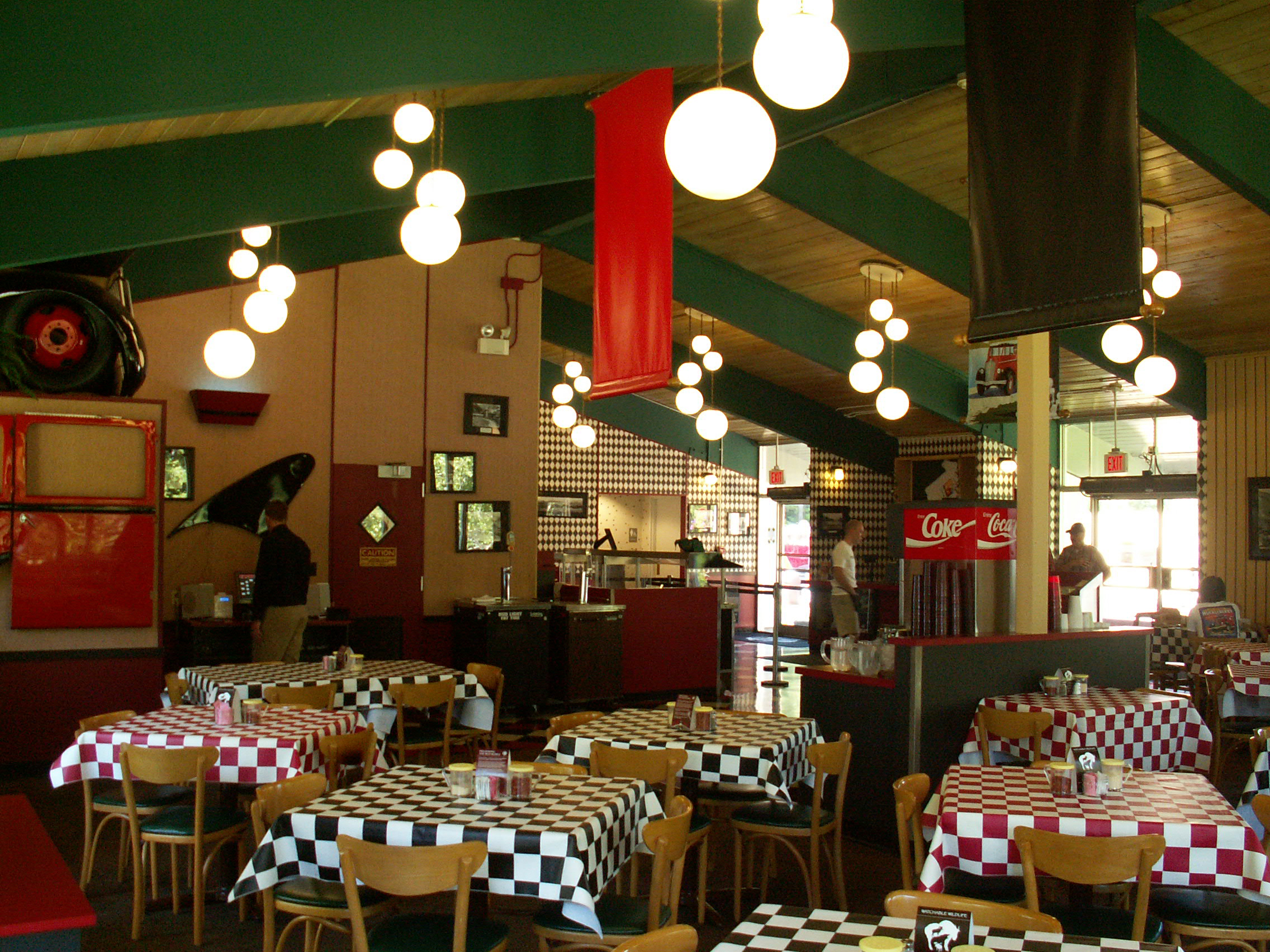 Interior of Jammer Joe's Coffee Shop, Lake McDonald Lodge Coffee Shop building, Glacier National Park, Montana, USA